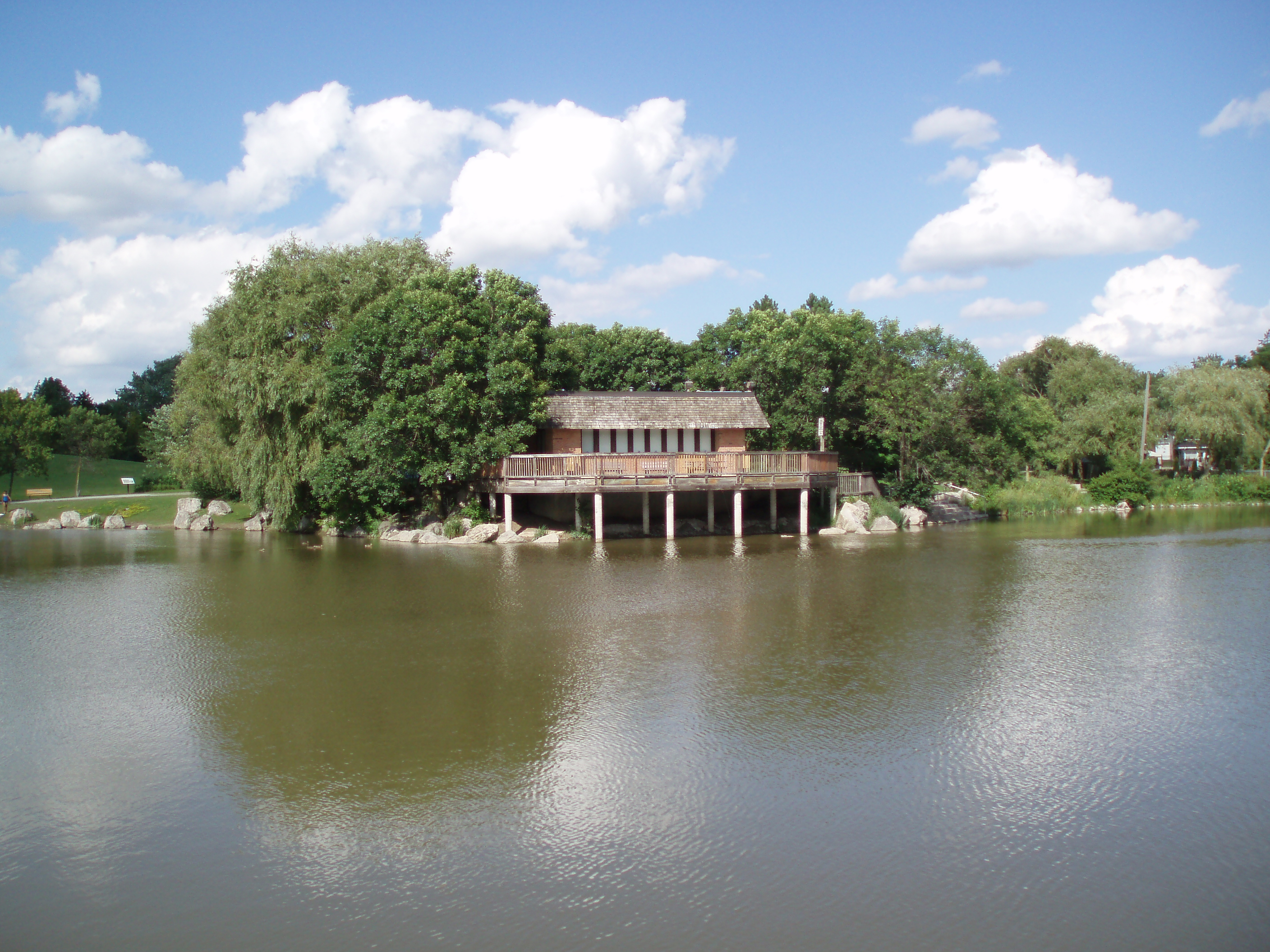 Toogood Pond, Unionville, Ontario, Canada